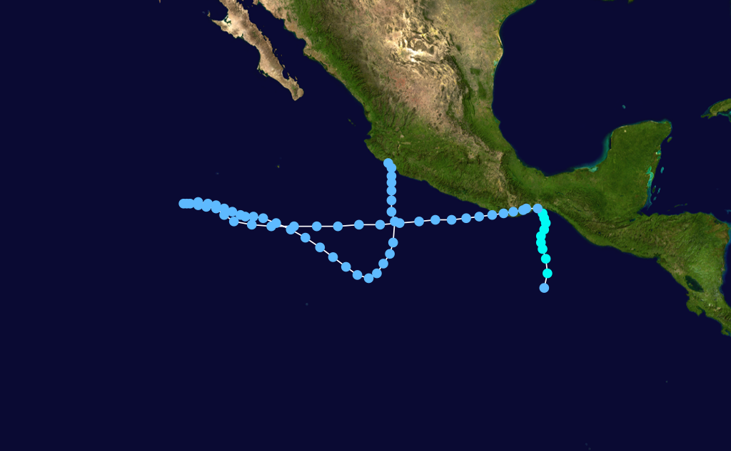 Tropical Storm Olaf (1997) track. Uses the color scheme from the Saffir-Simpson Hurricane Scale.